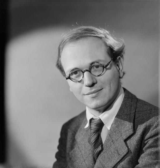 Studio photo